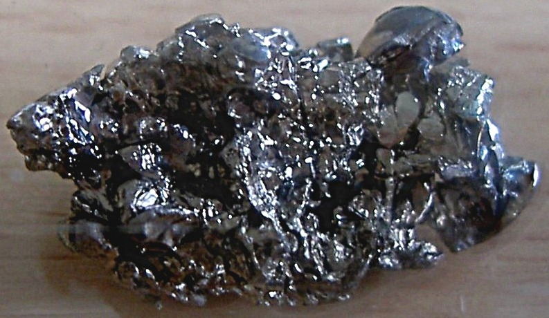 Elementares Barium unter Argon Schutzgas / Pure barium in protective argon gas atmosphere.